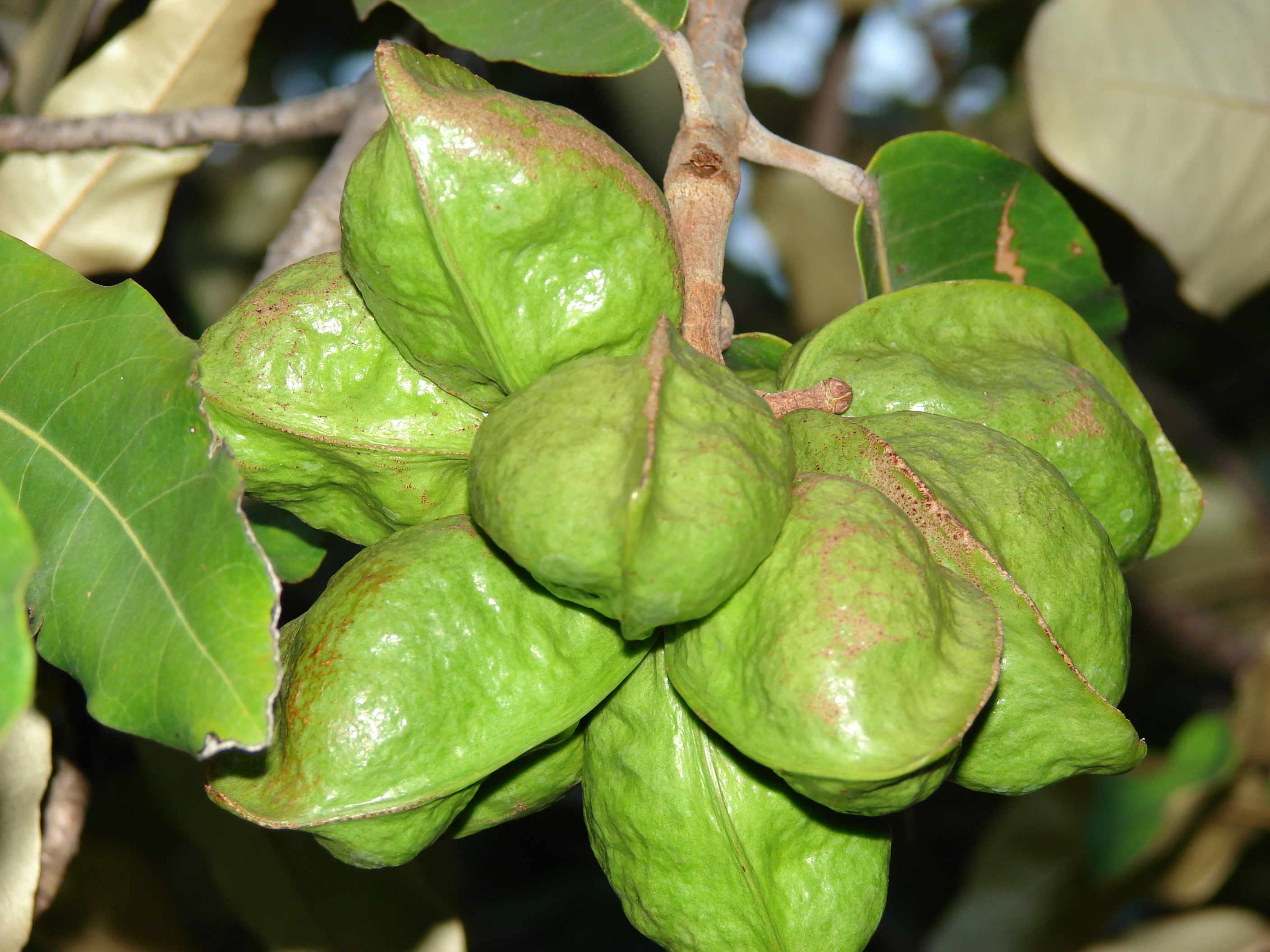 Heritiera littoralis (fruit). Location: Oahu, Ala Moana Beach Park